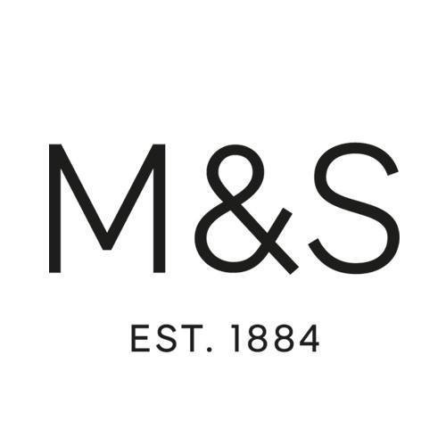 The new Marks & Spencer logo as of late 2014